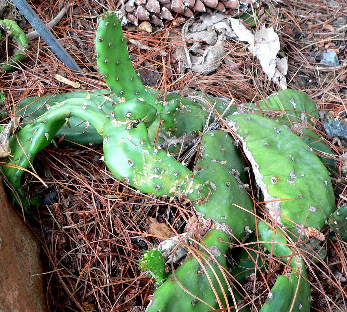 Photo of Opuntia humifusa at the University of California Botanical Garden